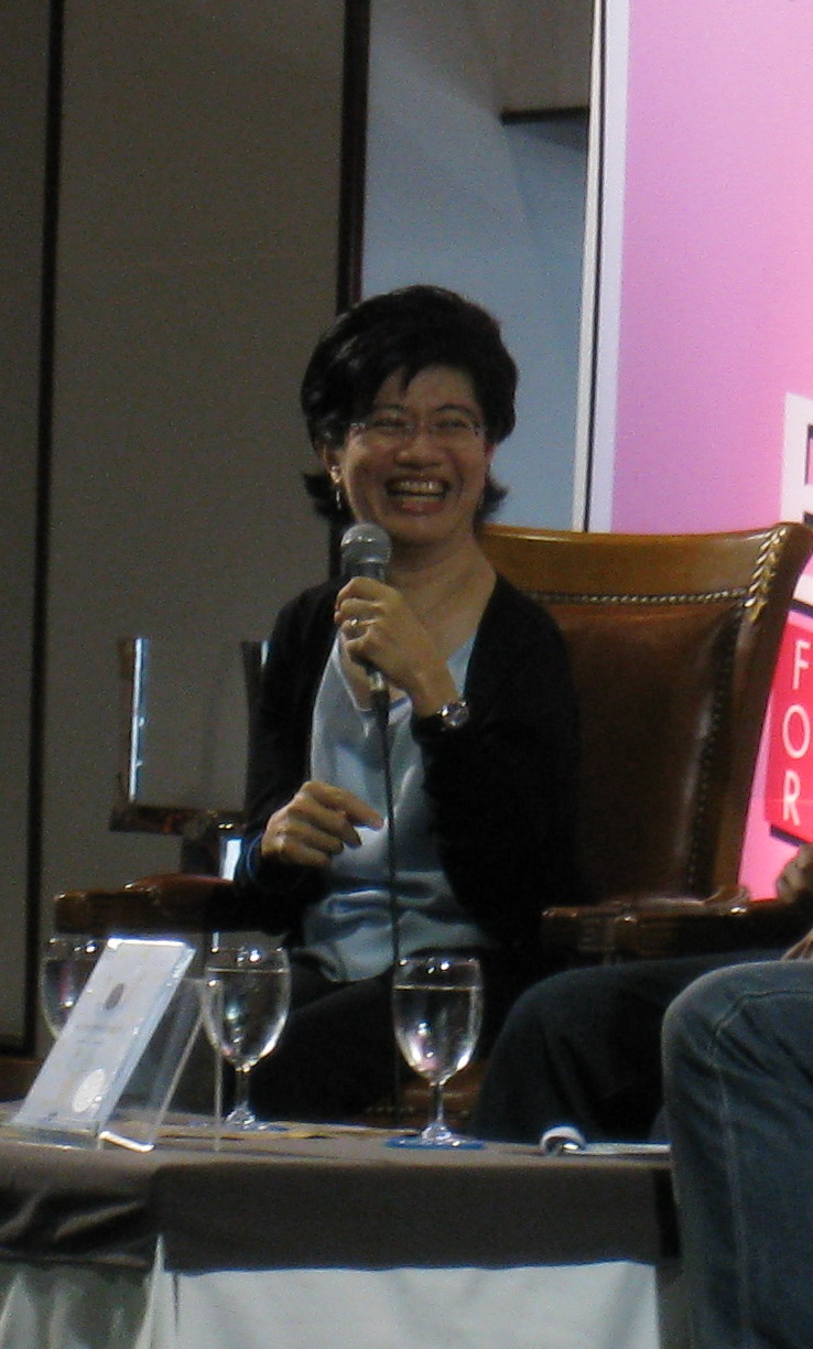 Ngarmpun Vejjajiva at book expo 08